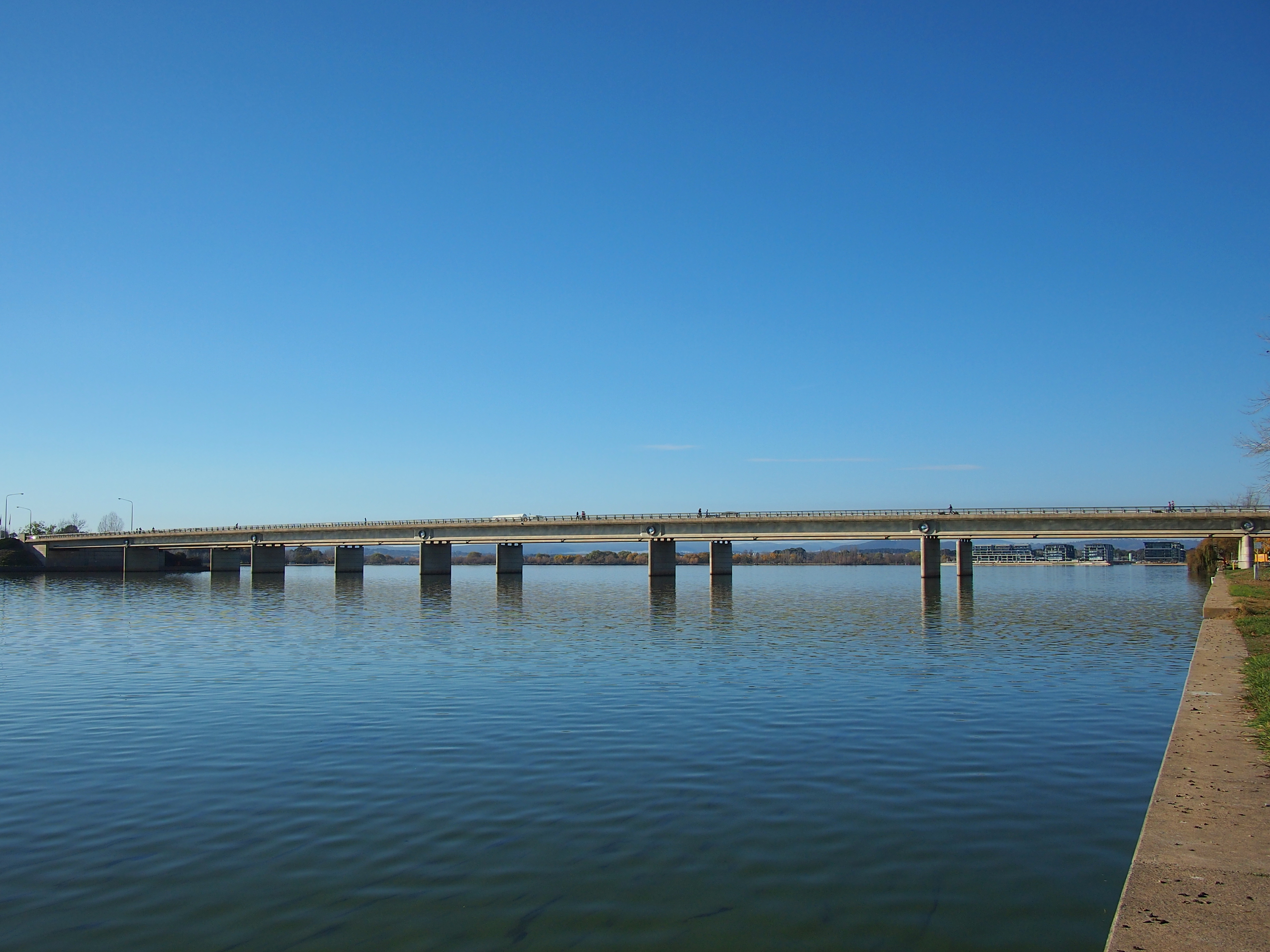 Kings Avenue Bridge viewed from the east